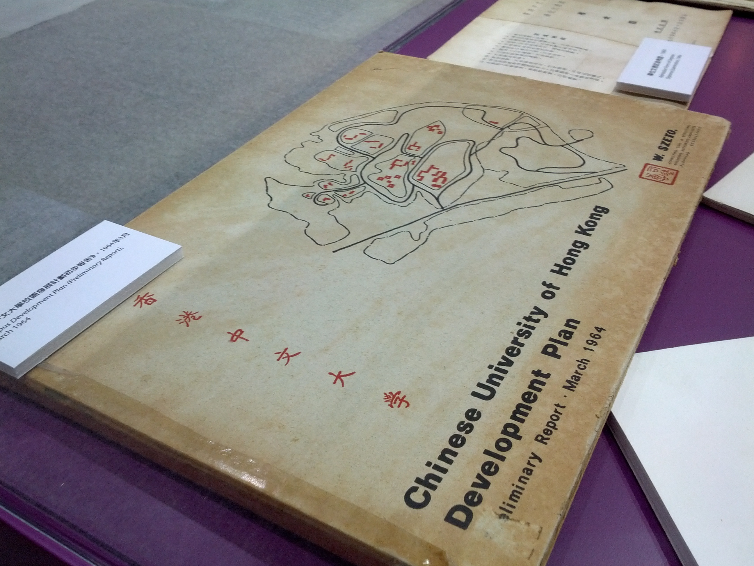 The Chinese University of Hong Kong Development Plan Preliminary Report (March 1964) by Mr Szeto Wai